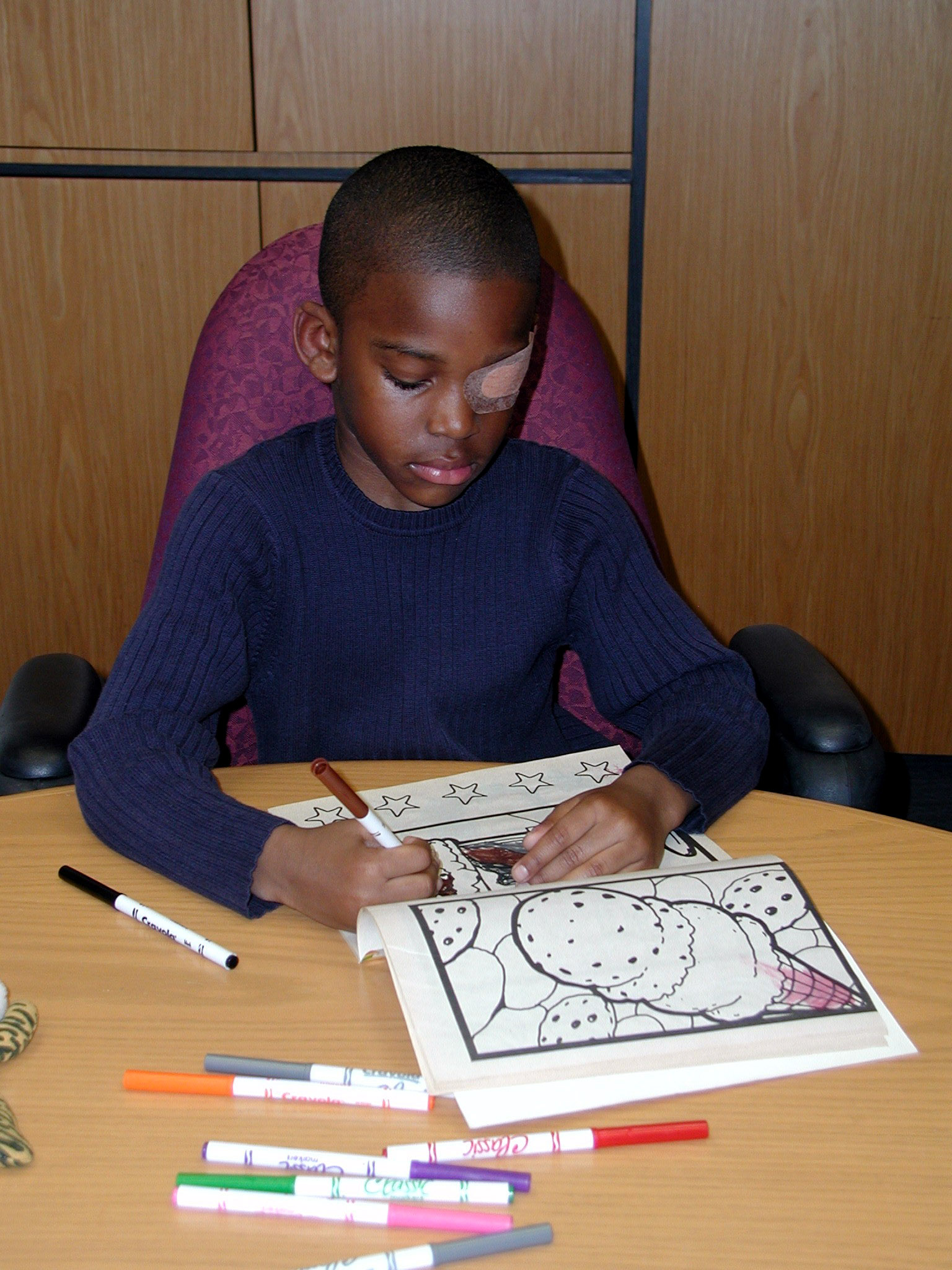 A child wearing an eyepatch in an attempt to cure amblyopia.